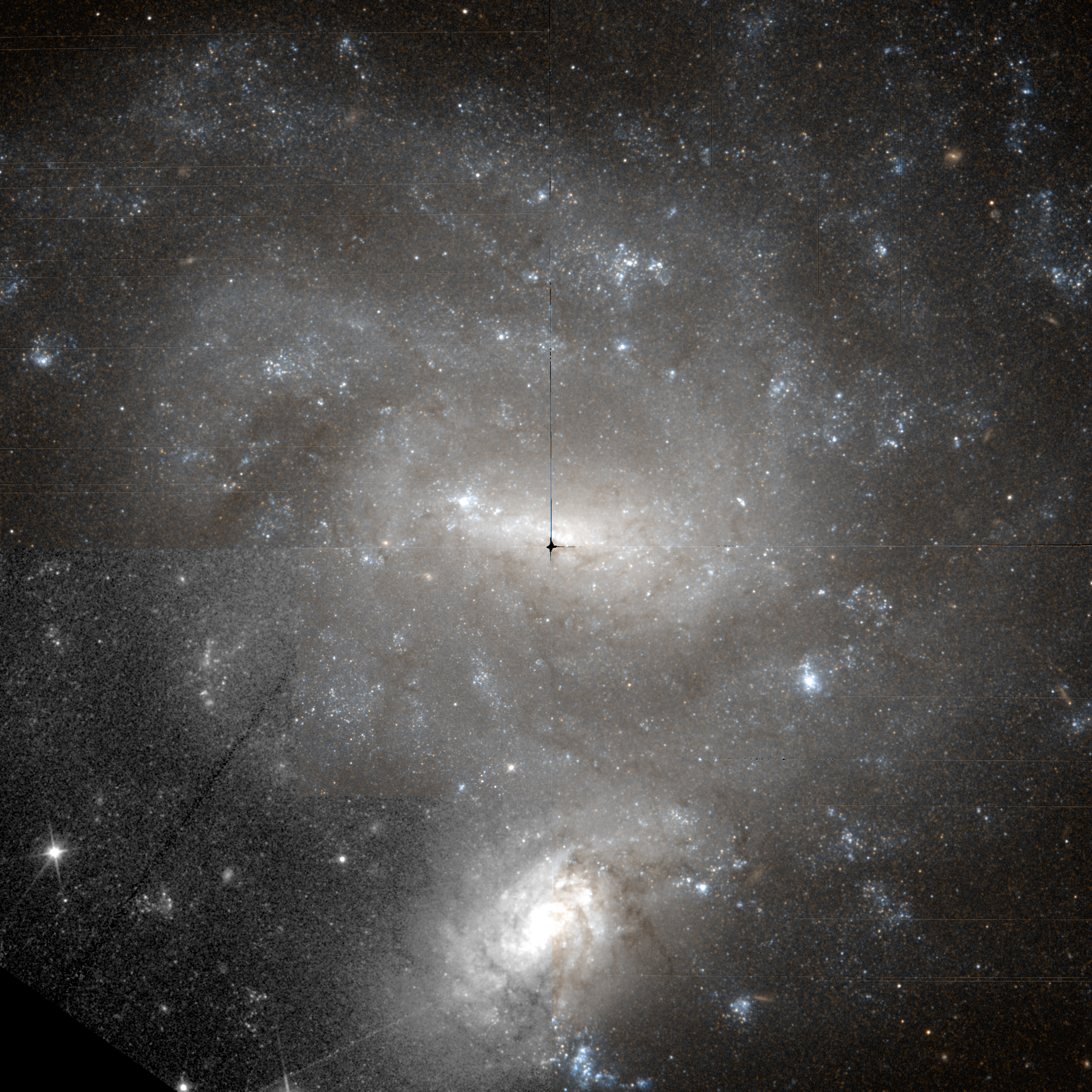 Color rendering is done by by Aladin-software (2000A&AS..143...33B.)